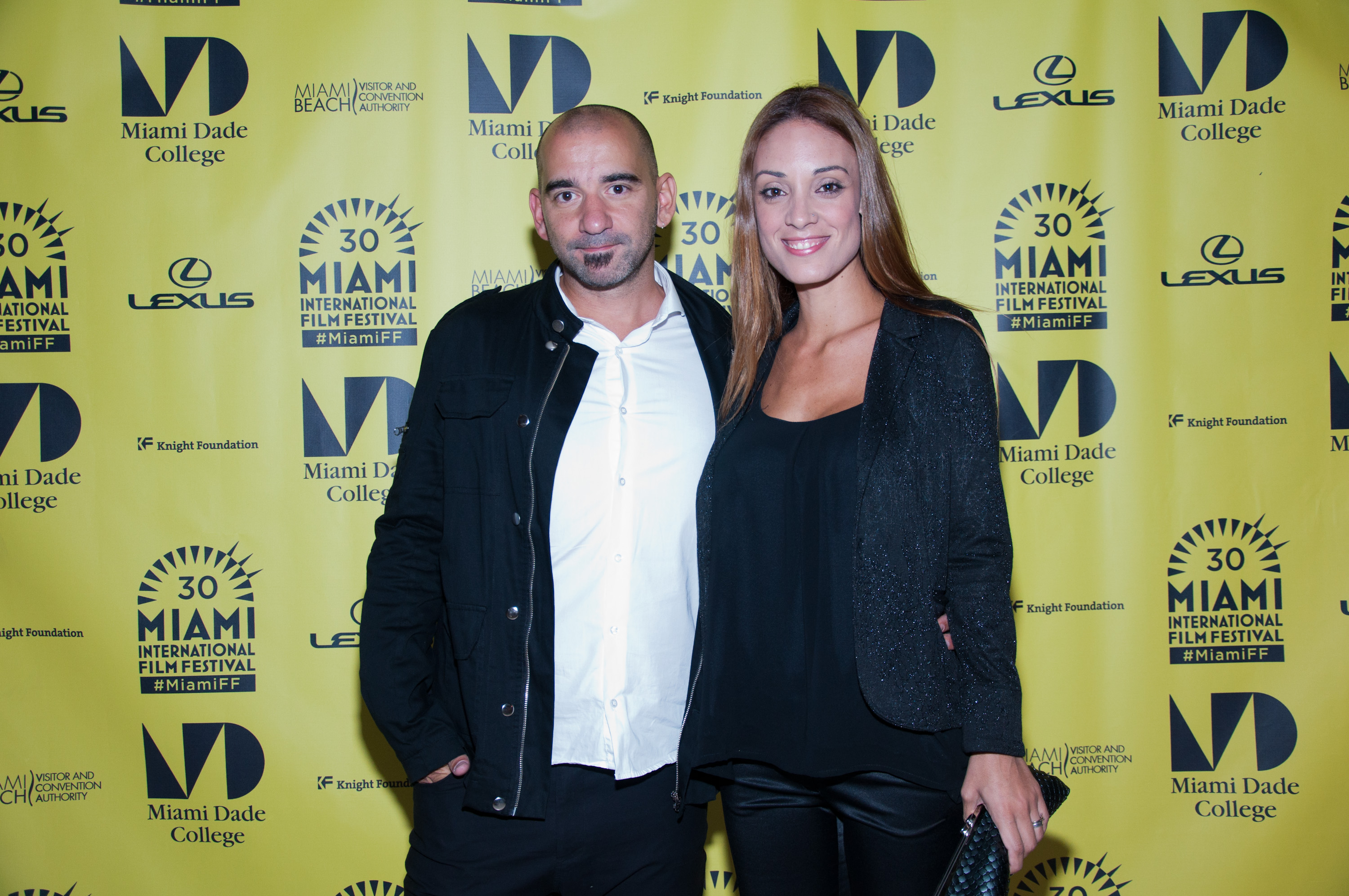 Director Pablo Trapero & Actress Martina Gusman at the WHITE ELEPHANT (Elefante blanco) premiere at the Miami International Film Fesitval at the Regal South Beach on March 8, 2013